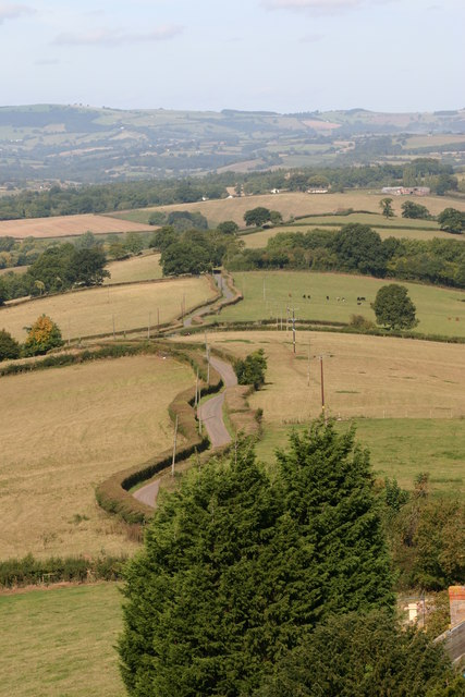 View from top of Cwmcarvan Church tower.